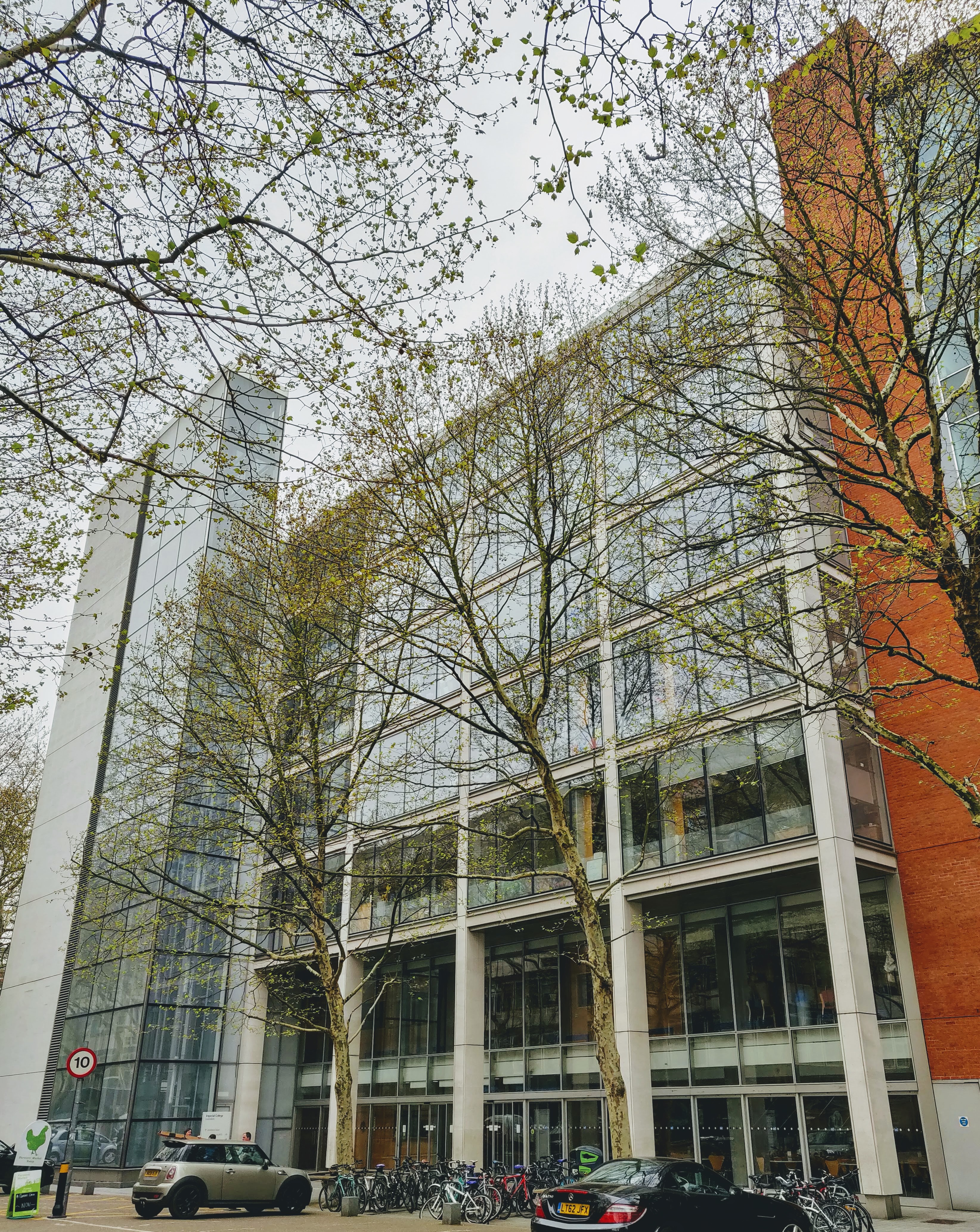 The Sir Alexander Fleming Building is the home of the Faculty of Medicine at Imperial College London. The building was opened by Elizabeth II